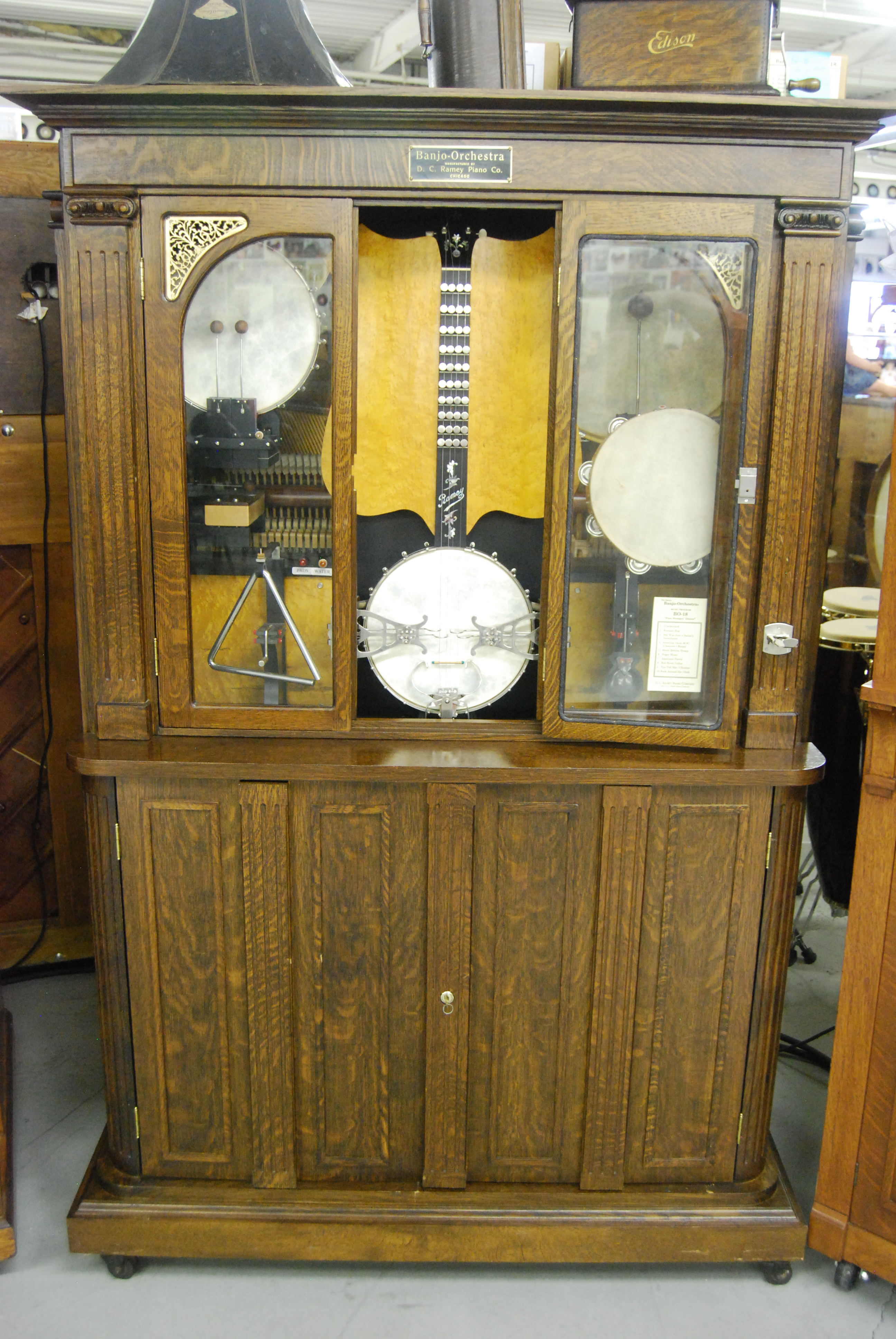 The DC Ramey Company out of Chicago, IL makes modern versions of the nickelodeon, including the Banjo Orchestra, for which production began in 1994. This example is on display at the American Treasure Tour located in Oaks, PA.